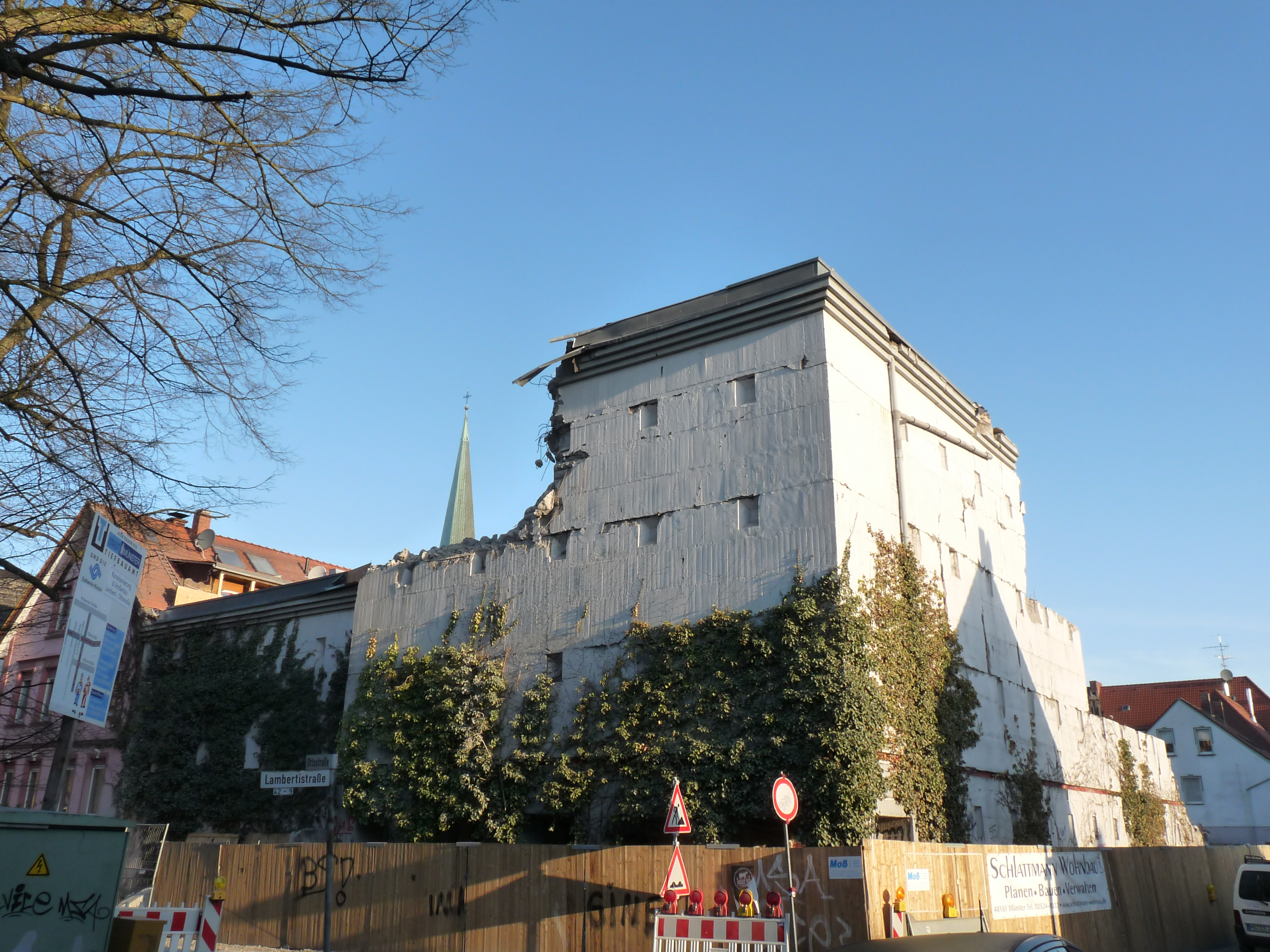 Hochbunker Ottostraße Münster: air raid shelter - demolition